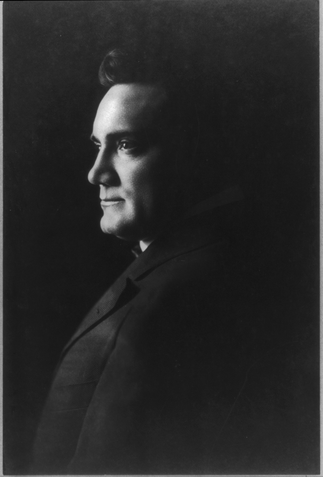 Enrico Caruso, 1873-1921, head-and-shoulders portrait, facing left